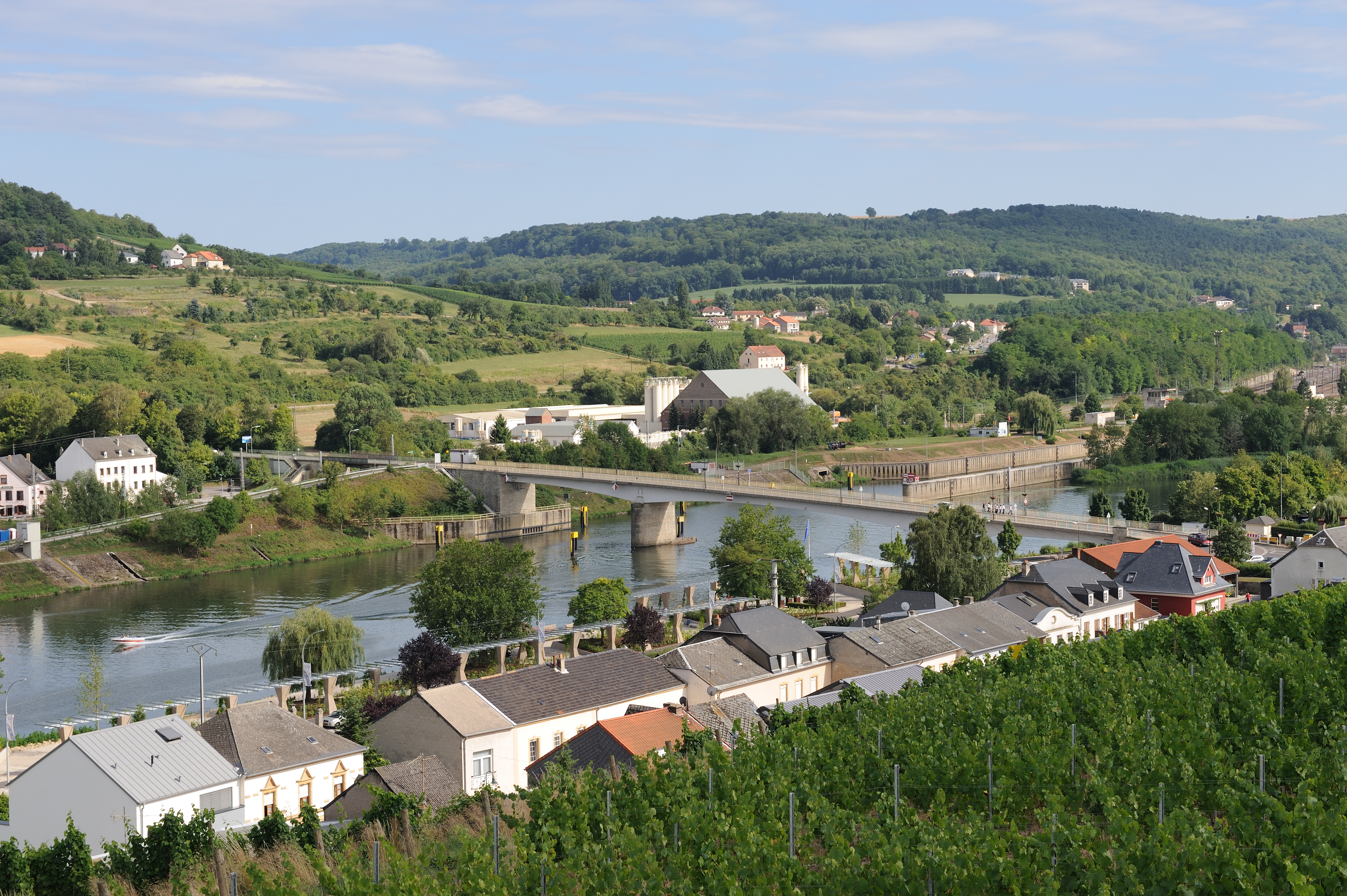 Moselle valley at the tripoint Luxembourg (foreground) - Germany (left background) - France (right background), as seen from Markusberg at Schengen.